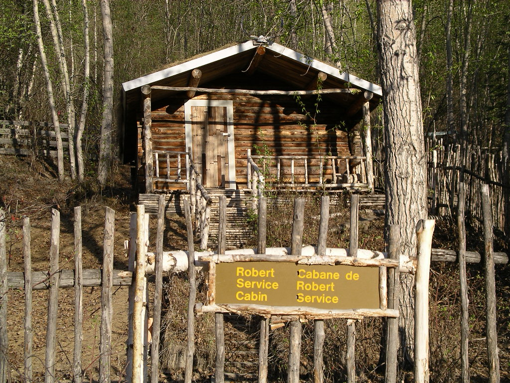 Log cabin from the past